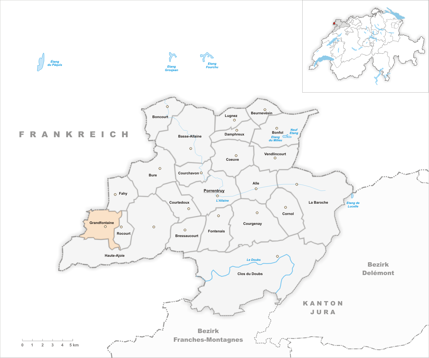 Municipality Grandfontaine